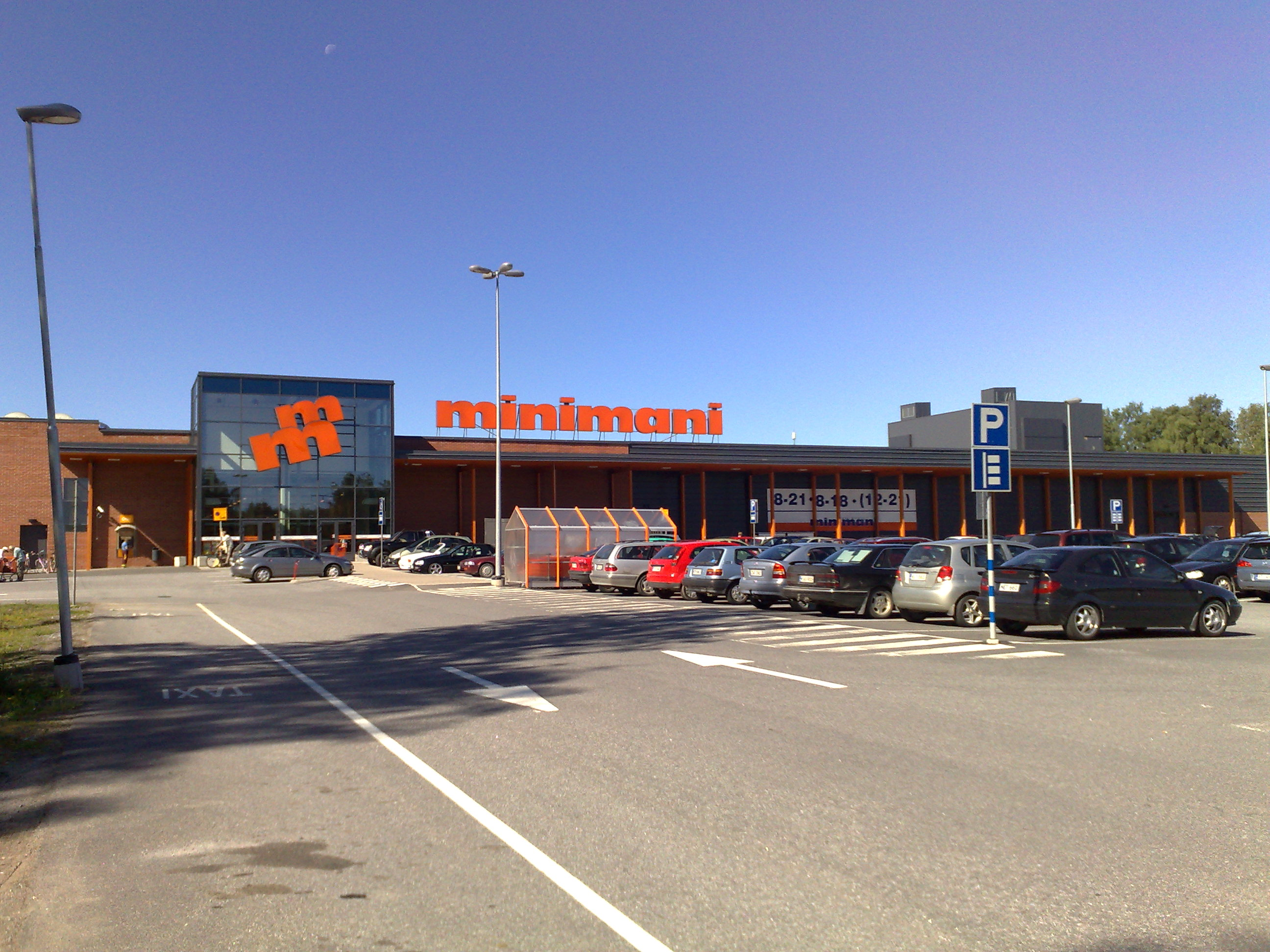 Minimani shop in Vaasa, Finland